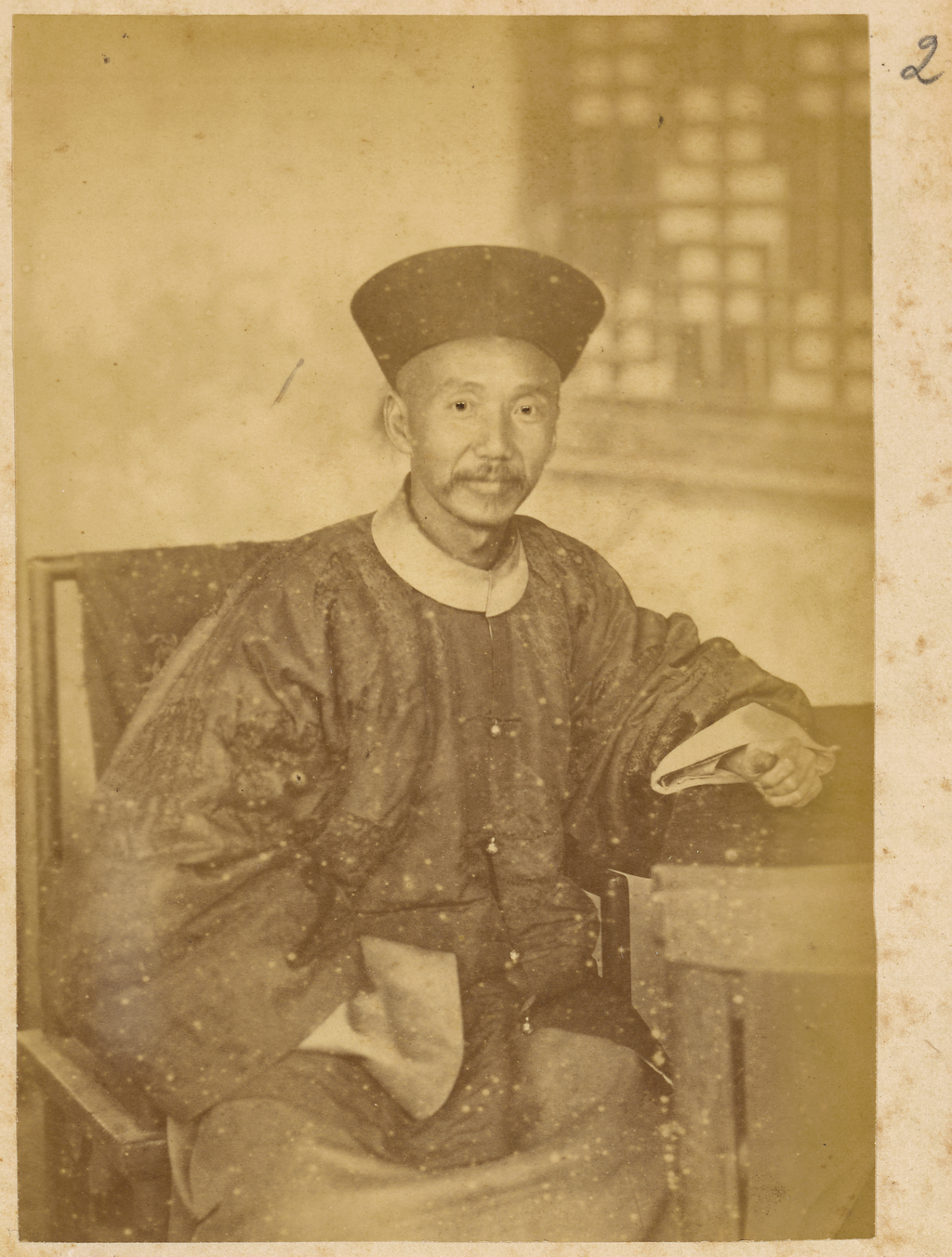 In 1874-75, the Russian government sent a research and trading mission to China to seek out new overland routes to the Chinese market, report on prospects for increased commerce and locations for consulates and factories, and gather information about the Dungan Revolt then raging in parts of western China. Led by Lieutenant Colonel Iulian A. Sosnovskii of the army General Staff, the nine-man mission included a topographer, Captain Matusovskii; a scientific officer, Dr. Pavel Iakovlevich Piasetskii; Chinese and Russian interpreters; three non-commissioned Cossack soldiers; and the mission photographer, Adolf Erazmovich Boiarskii. The mission proceeded from Saint Petersburg to Shanghai via Ulan Bator (Mongolia), Beijing, and Tianjin, and then followed a route along the Yangtze River, along the Great Silk Road through the Hami oasis, to Lake Zaysan, back to Russia. Boiarskii took some 200 photographs, which constitute a unique resource for the study of China in this period. Most of the photographs are included in this album, which later became part of the Thereza Christina Maria Collection assembled by Emperor Pedro II of Brazil and given by him to the National Library of Brazil. Chinese; Memory of the World; Portrait photographs